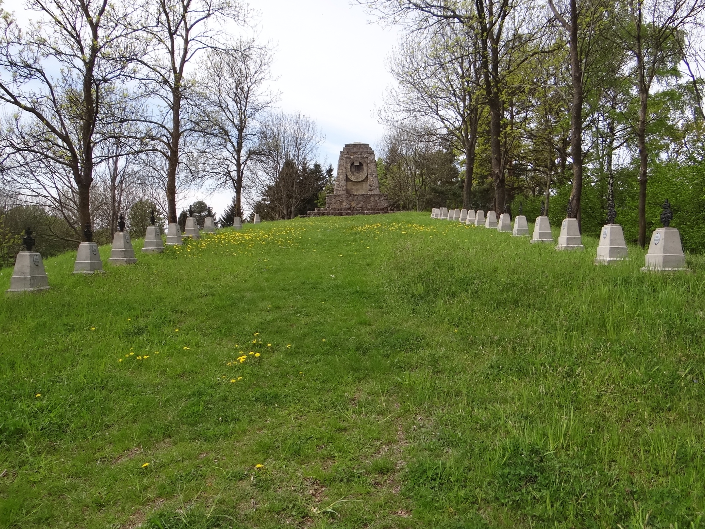 World War I Cemetery nr 185 in Lichwin